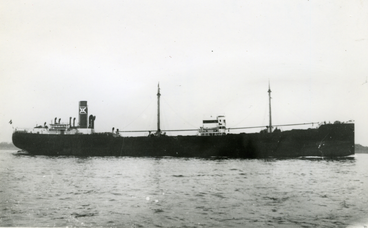 General cargo ship FRIGGA built at Lübecker Flender-Werke, Lübeck (yard № 100, launched: 15-07-1924, delivered: 08-1924), BU Bremerhaven 24-02-1962, photo by Dahl & Rohwedder, collection J. Robert Boman (1926 - 2002), owned by Sjöhistoriska museet.